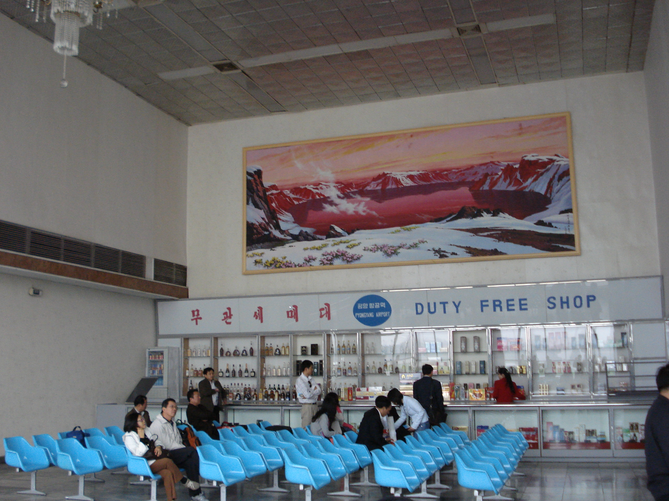 Pyongyang Airport, DPR Korea.